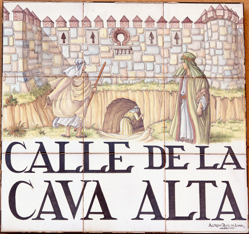 Sign of Calle de la Cava Alta (street, Centro district) in Madrid (Spain).